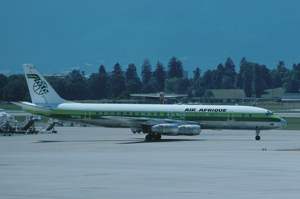 An Air Afrique Douglas DC-8-53 at Cointrin Airport, Geneva, Switzerland